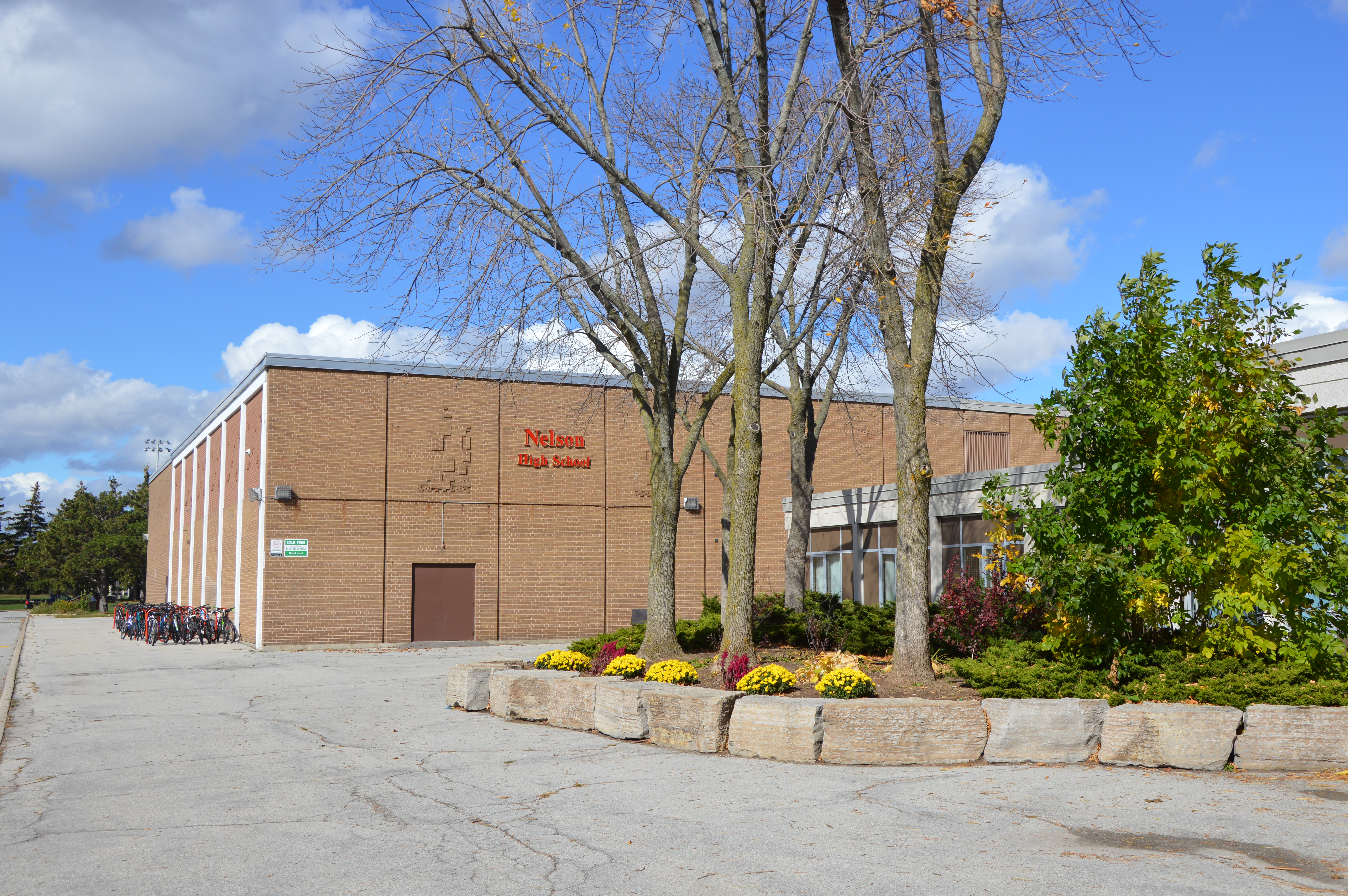 This is a photo of Nelson High School in Burlington, Ontario